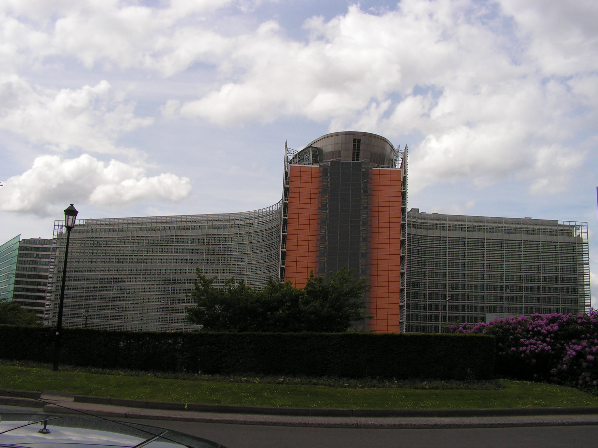 Brussel/Bruxelles - European Commission Building